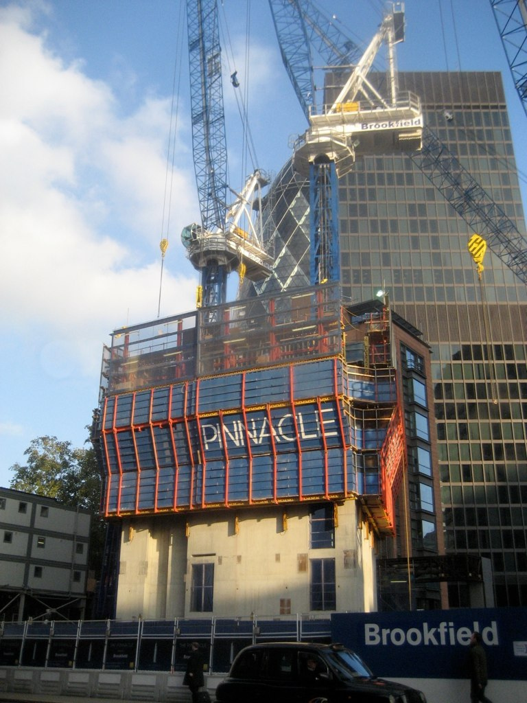 Bishopsgate Tower construction progress on November 1, 2010.